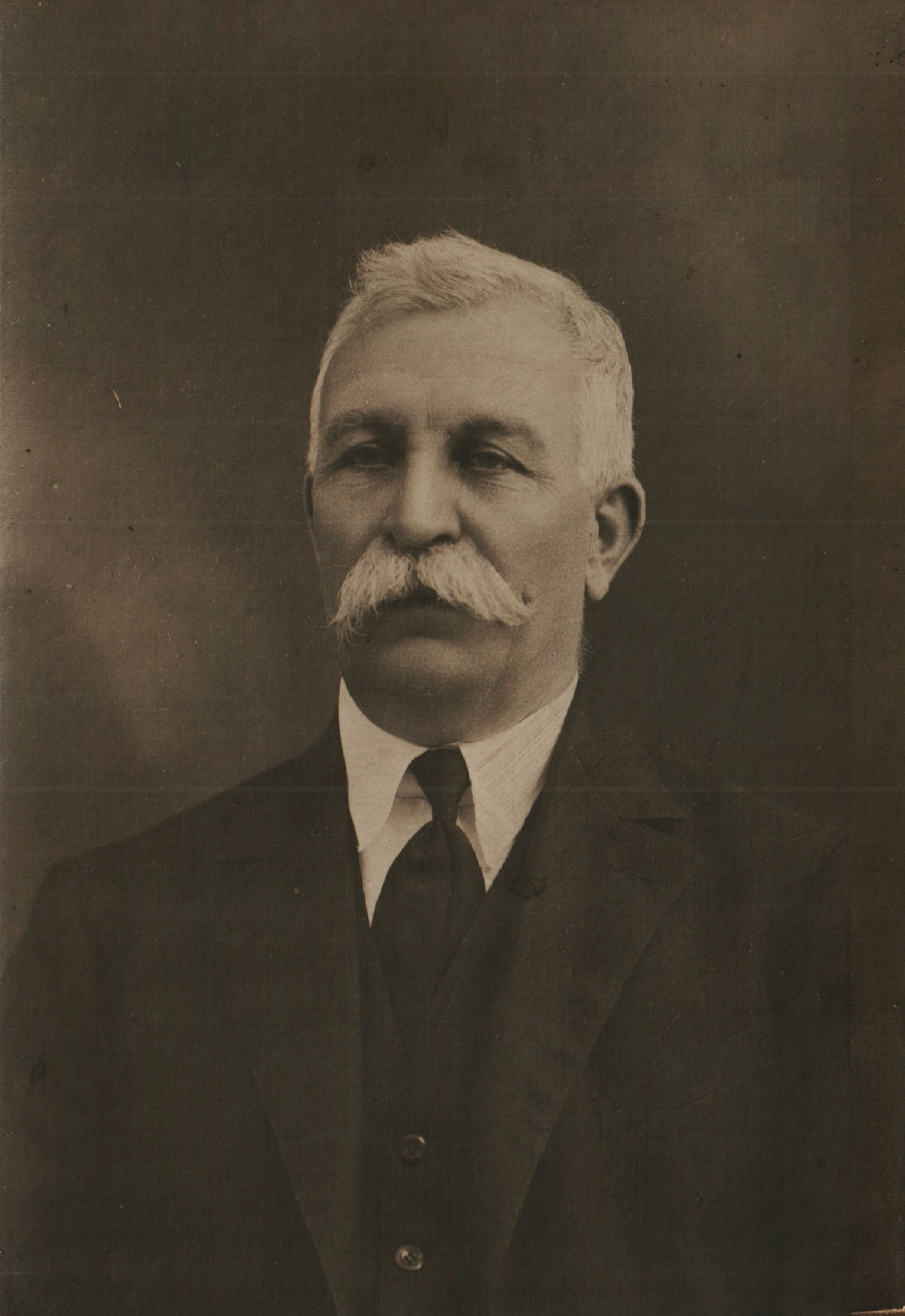 Bulgarian teacher Milyo Kasabov (1868–1937).